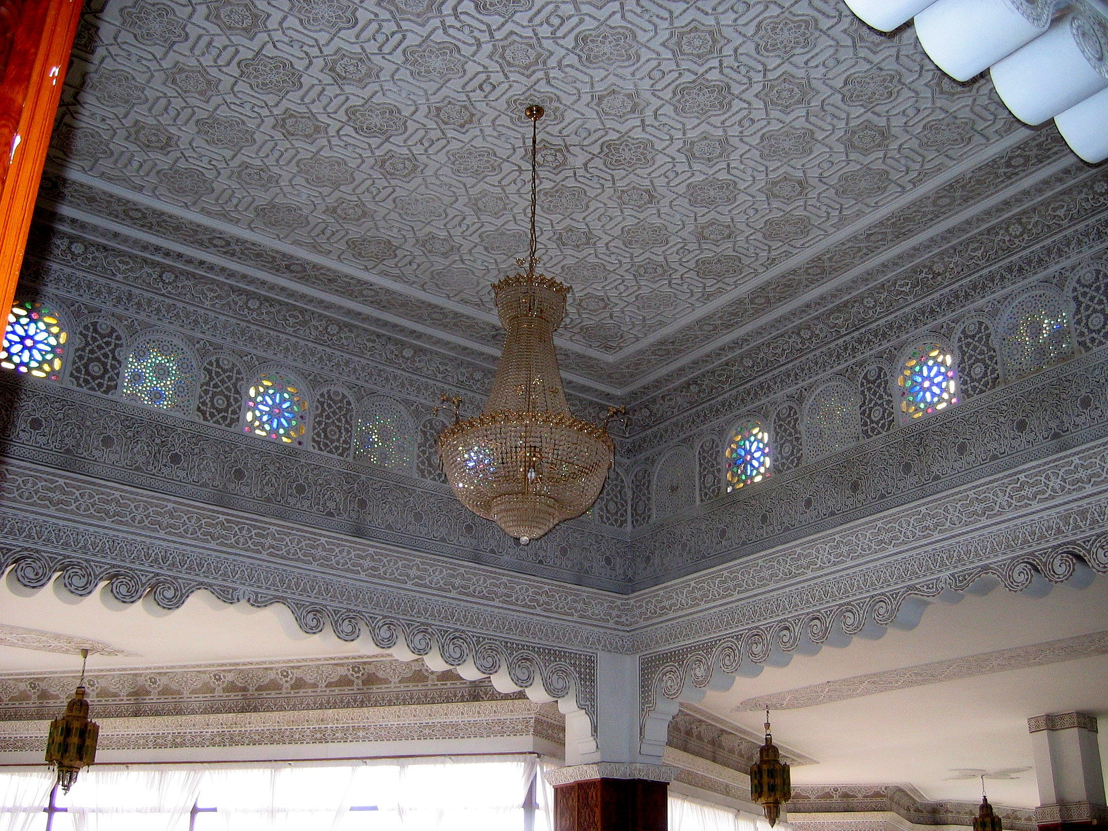 Mosaic ceiling in Agadir, Morocco